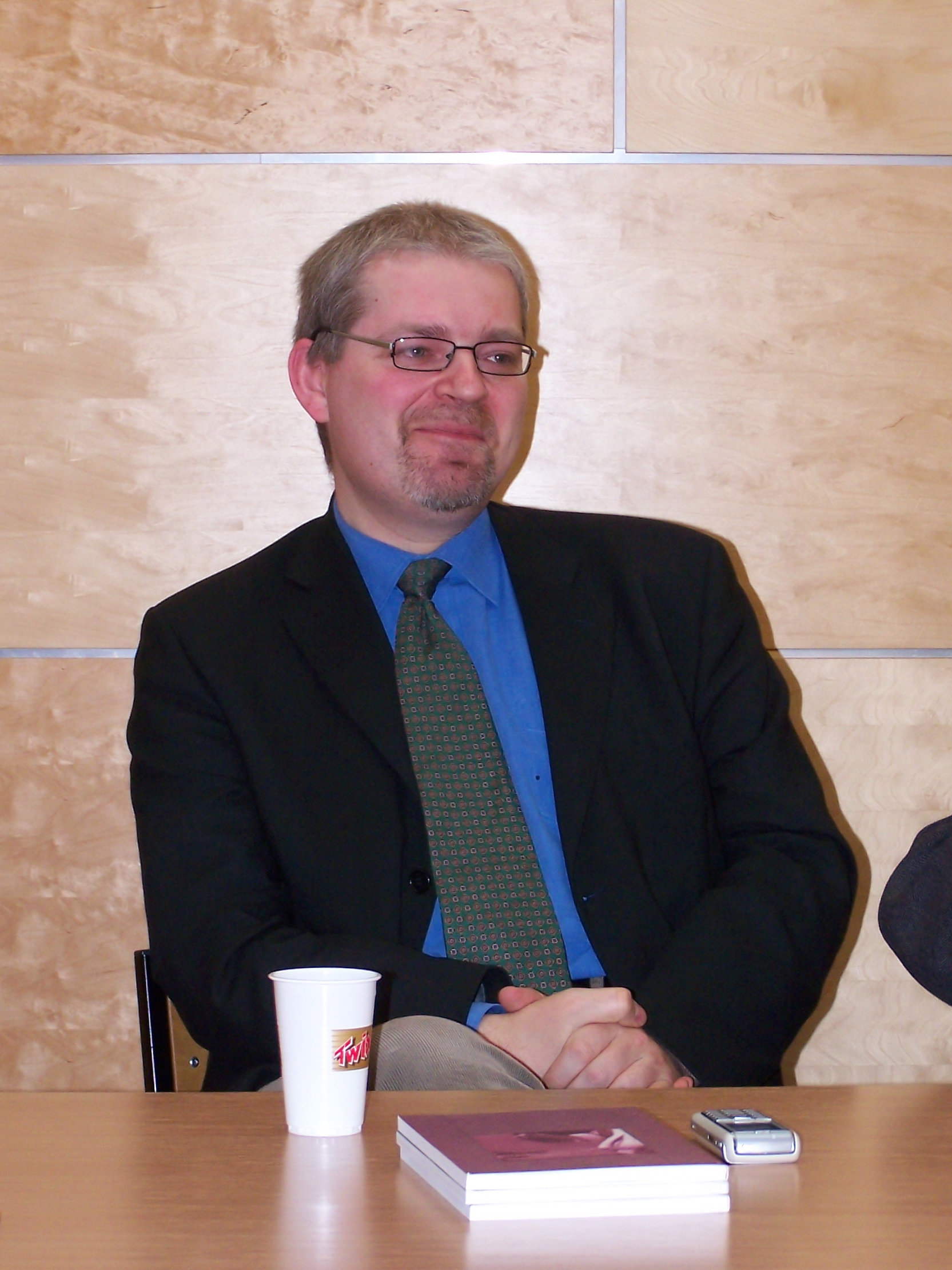 Paweł Milcarek.